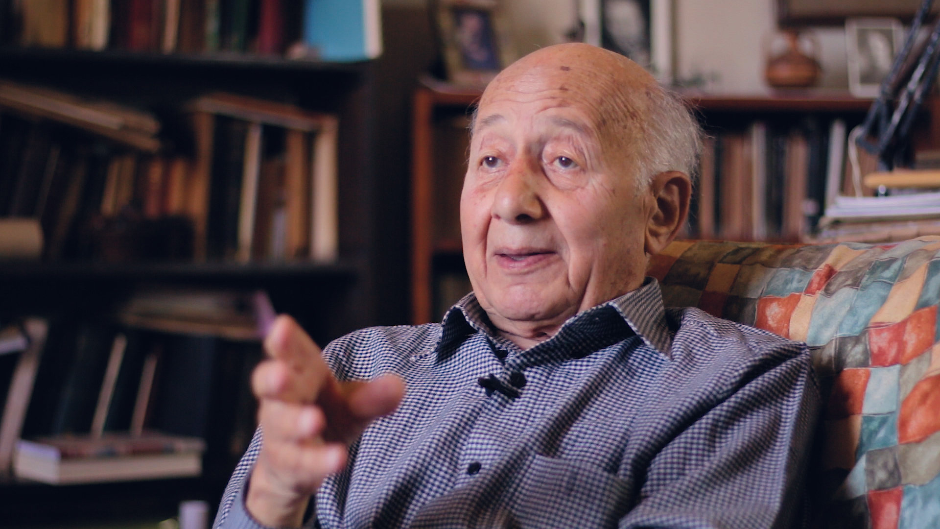 Mostafa El-Abbadi - Image from last interview with Dr. Ashraf Ezzat . Two months before Abbadi's departure. The interview was filmed at Prof. Abbadi's own house in Alexandria.